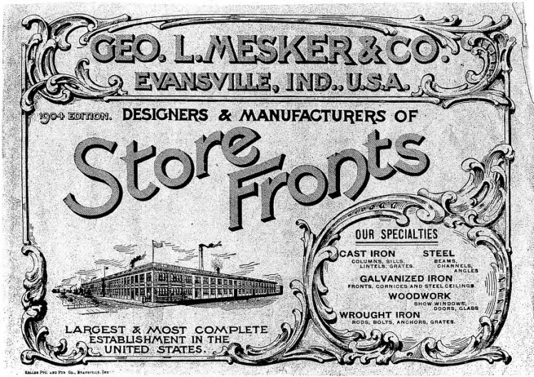 Cover of catalog for products manufactured by George L. Mesker & Co. of Evansville, Indiana, 1904.